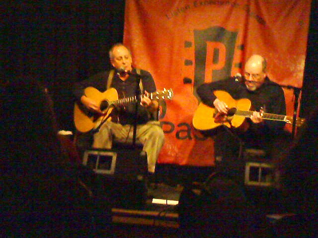 Steve Katz - original Blood,Sweat, and Tears guitarist(hit song- "Sometimes In Winter); with 1960s folk/blues guitarist Stefan Grossman--performed at Passim coffeehouse in Cambridge, Massachusetts, on Jan. 22, 2012.